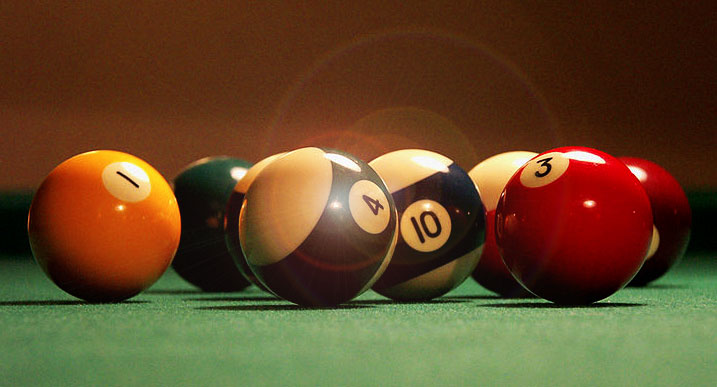 Digital Edition of a Commons' pic